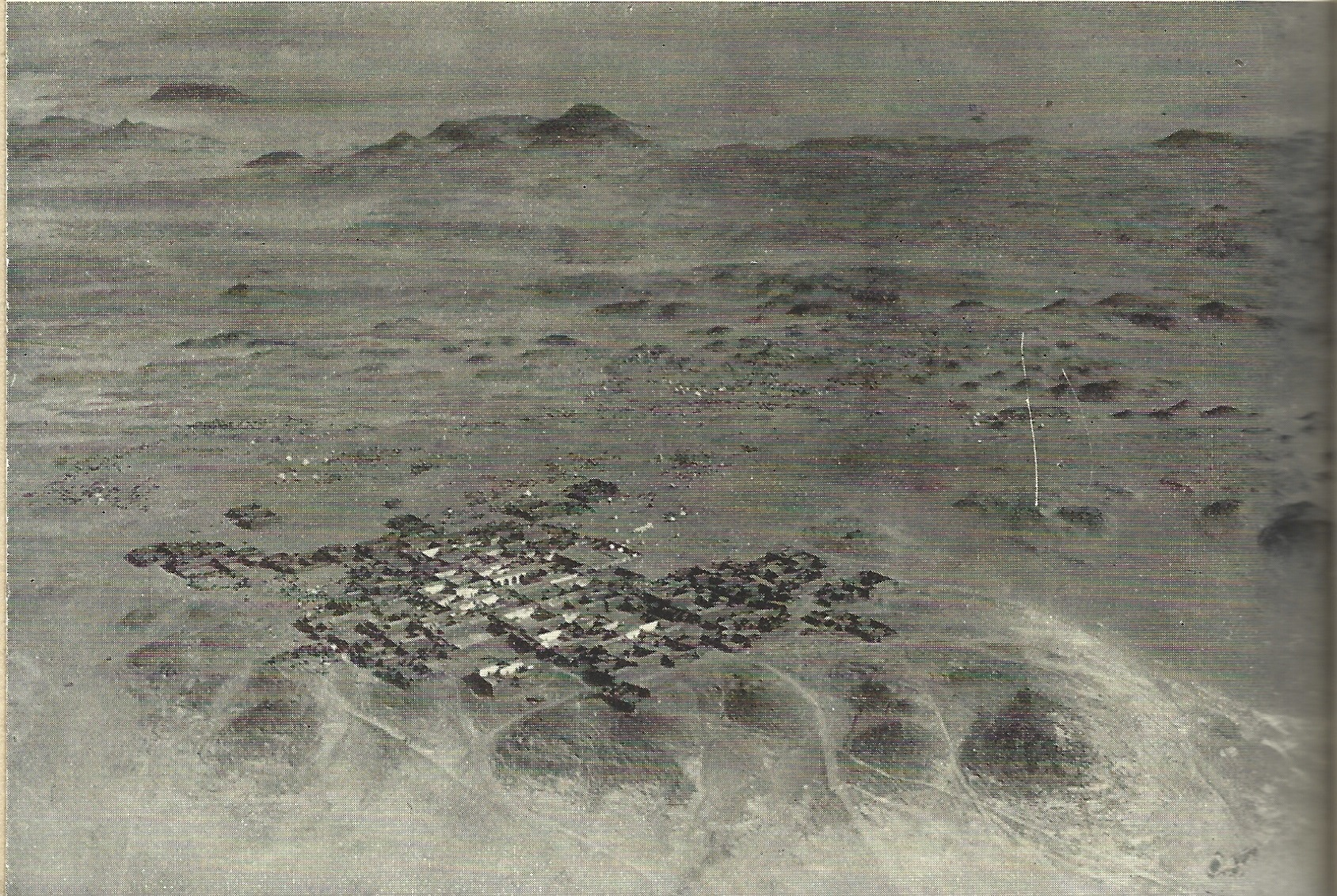 The Kufra oasis from aeroview during the Second Italo-Sanusi War.